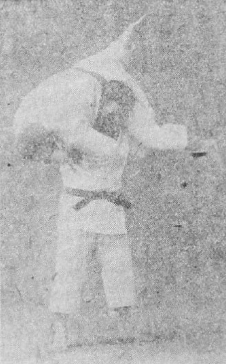 Kata guruma demonstration by Japanese judoka, Kyūtarō Kanda, who invented it's technique.